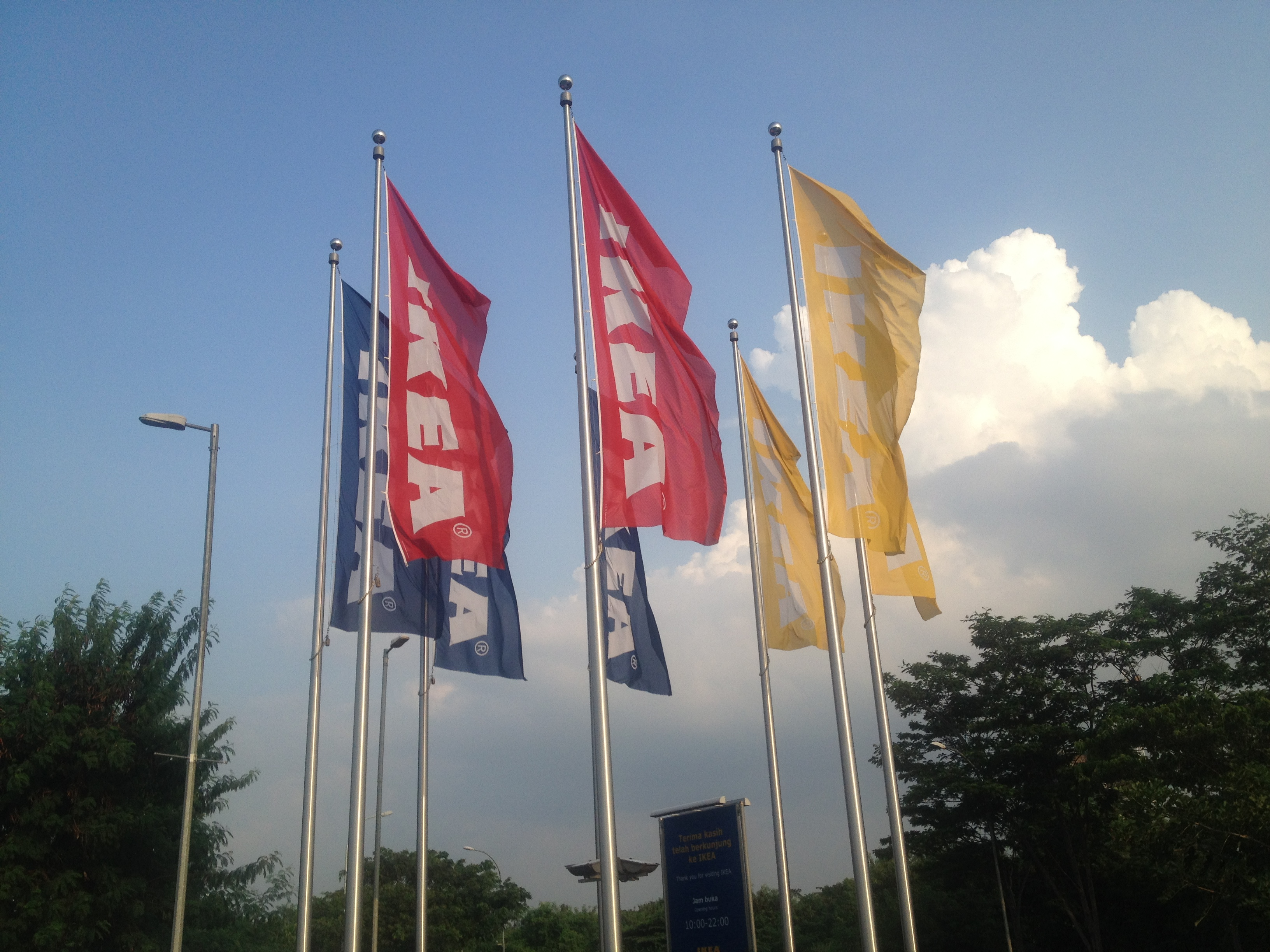 IKEA flags in Alam Sutera, Tangerang, Indonesia.